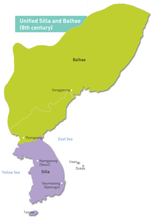 By the mid-sixth century, the Silla Kingdom had brought under its control all of the neighboring town-states within the Gaya Confederation. Through an alliance with the Tang Dynasty of China, Silla unified the Korean Peninsula in 668 and saw the zenith of its power and prosperity in the mid-eighth century. It attempted to establish an ideal Buddhist country. Bulguksa Temple was constructed during the Unified Silla period. However, its Buddhist social order began to deteriorate as the nobility indulged in increasing luxury. Silla had repelled Tang attempts to subjugate Goguryeo and Baeche by 676. Then in 698, the former people of Goguryeo who resided in south-central Manchuria established the Kingdom of Balhae. Balhae included not only people of Goguryeo, but also a large Malgal population. Balhae established a government system centered around five regional capitals, which was modeled after the Goguryeo Kingdom's administrative structure. Balhae possessed an advanced culture which was rooted in that of Goguryeo. Balhae prosperity reached its height in the first half of the ninth century with the occupation of a vast territory reaching to the Amur River in the north and Kaiyuan in south-central Manchuria to the west. It also established diplomatic ties with Turkey and Japan. Balhae existed until 926, when it was overthrown by the Khitan. Many of the Balhae nobility, who were mostly Goguryeo descendants, moved south and joined the newly founded Goryeo Dynasty.